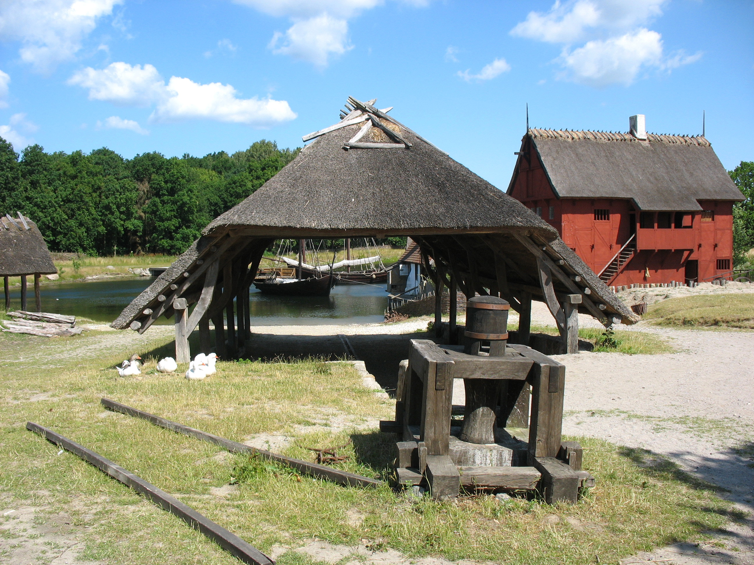 A small Middle Age village from "Middelaldercentret" located near the town "Nykøbing Falster". The location is the island Lolland in east Denmark.